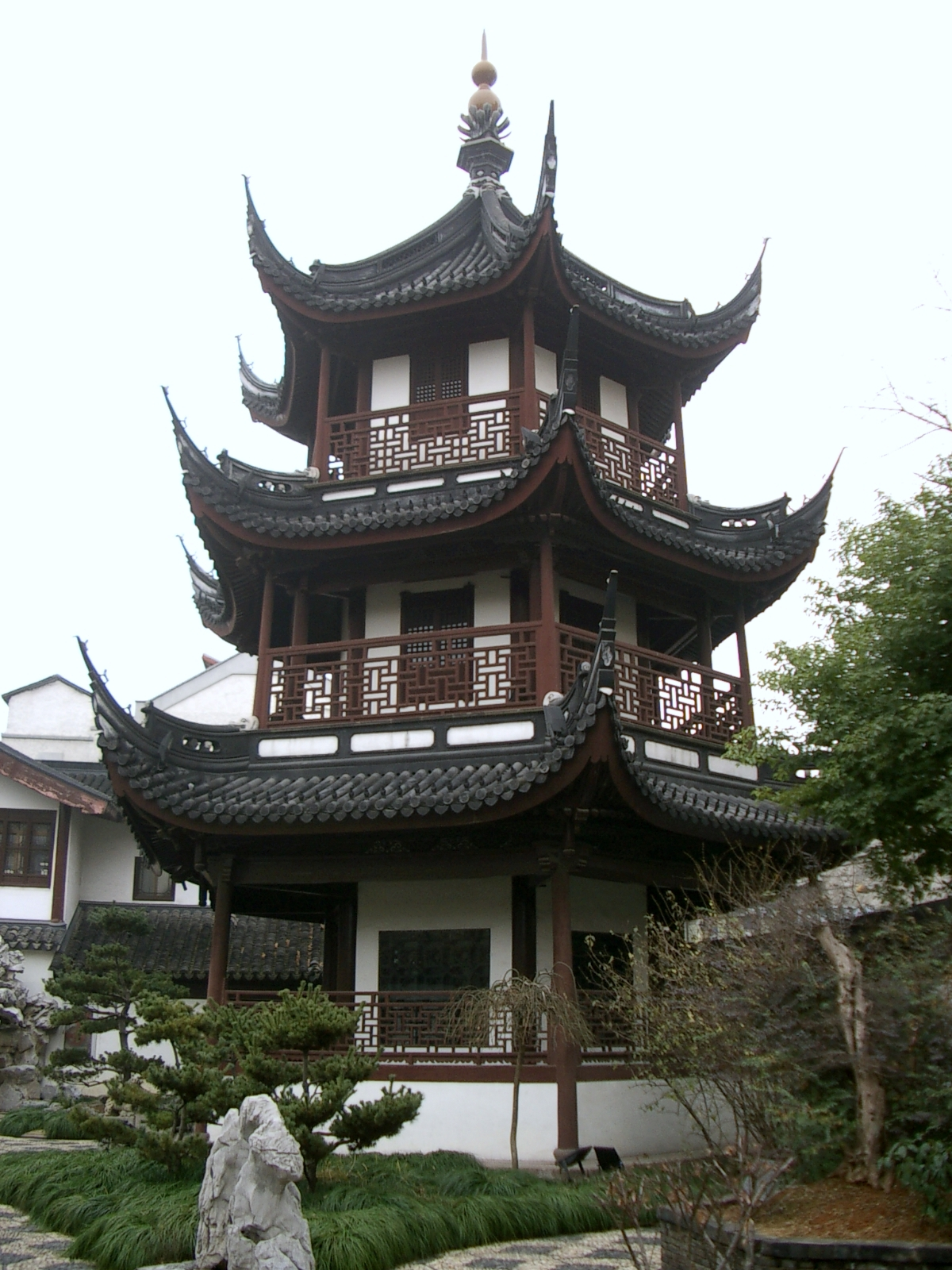 Kuixing Pavilion Confucius Temple of Shanghai